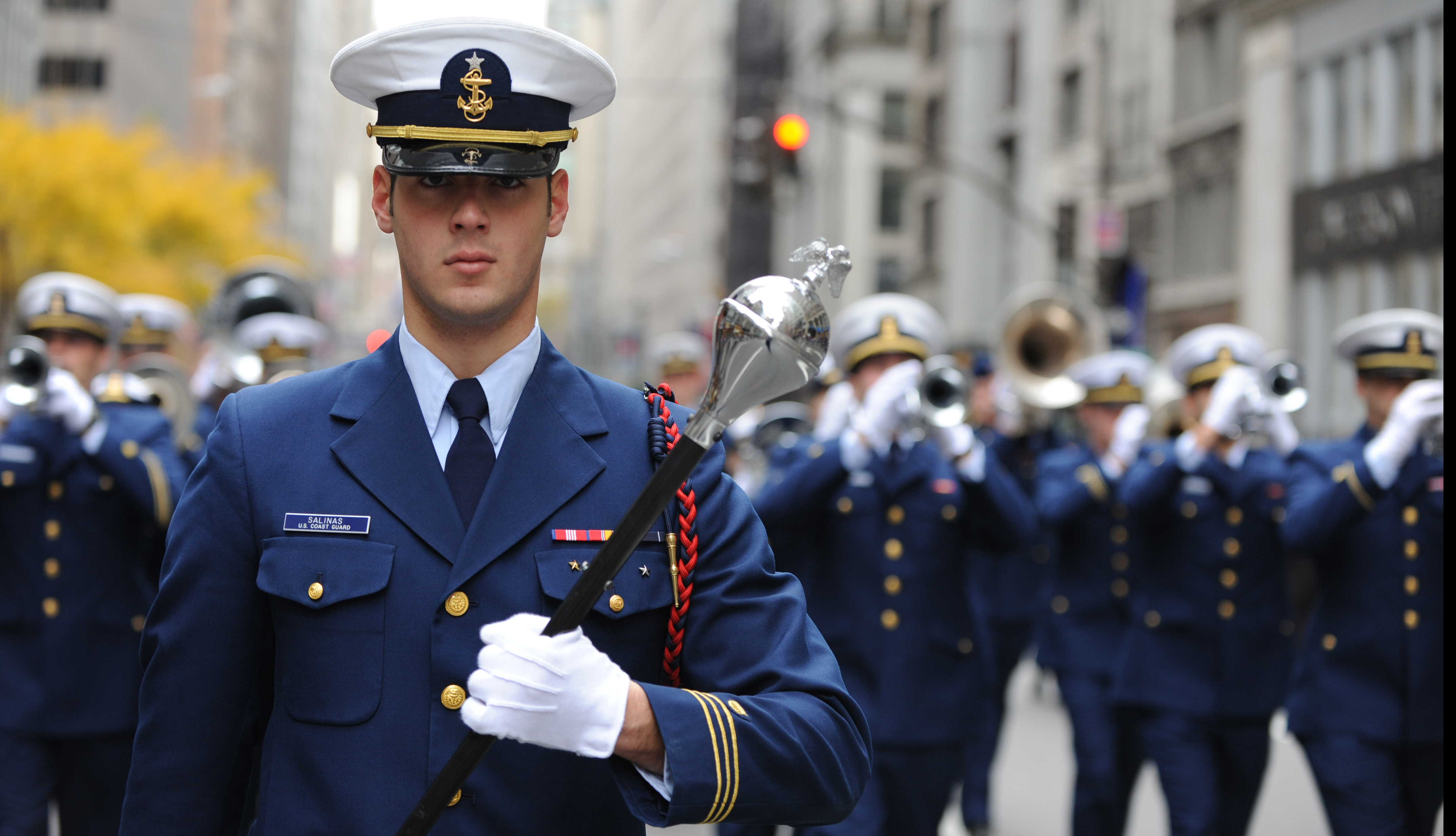 NEW YORK--Coast Guard Cadet Christopher Salinas leads members of the Coast Guard Academy band down 5th Avenue during the Veterans Day Parade in Manhattan Nov. 11, 2009. The annual Veterans Day Parade draws thousands of spectators who watch as Soldiers, Sailors, Marines, Coast Guardsmen and Airmen as they march through Manhattan. (U.S. Coast Guard photo/Petty Officer 2nd Class Annie Elis) VIRIN: 091111-G-4899E-162